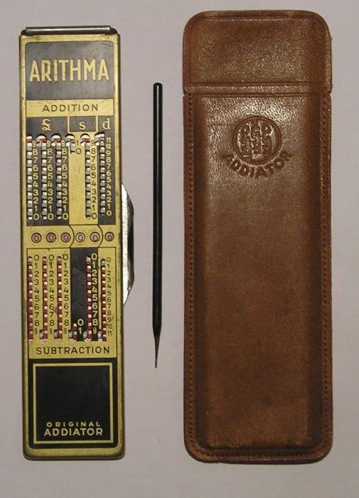 Slide adder, model Arithma for English non-decimal currency made by Addiator